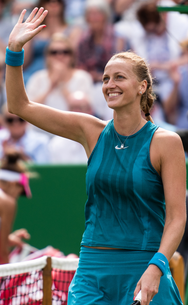 Petra Kvitova at the 2018 Nature Valley Classic 2018 celebrating win over Mihaela Buzarnescu